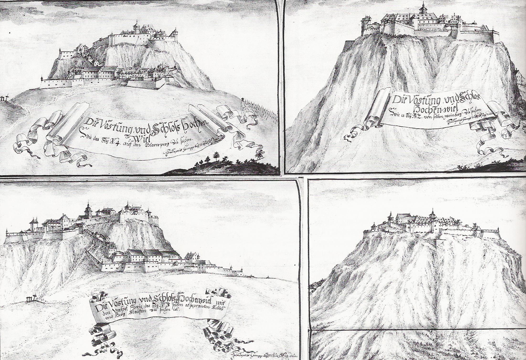 Castle Hohentwiel in southern germany, near Lake Constance.